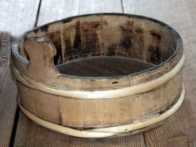 Stave vessel. Milk vessel, Pinus wood, diameter 35 cm. Norsk Folkemuseum. NFL.01921